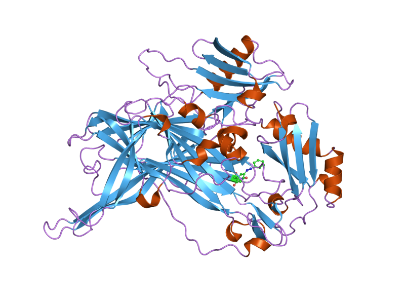 Cartoon representation of the molecular structure of protein registered with 2e2t code.